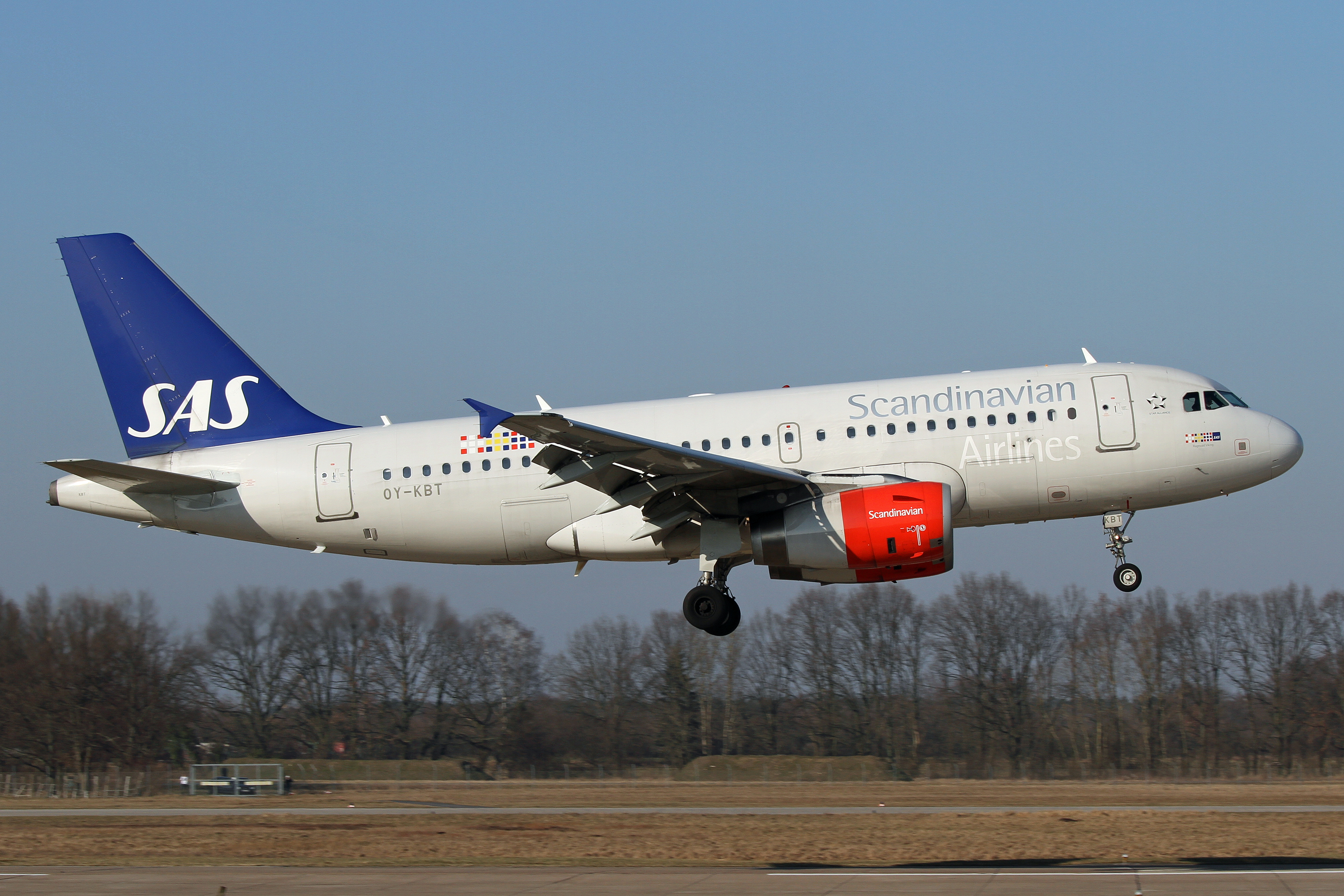 Airbus A319 SAS Scandinavian Airlines